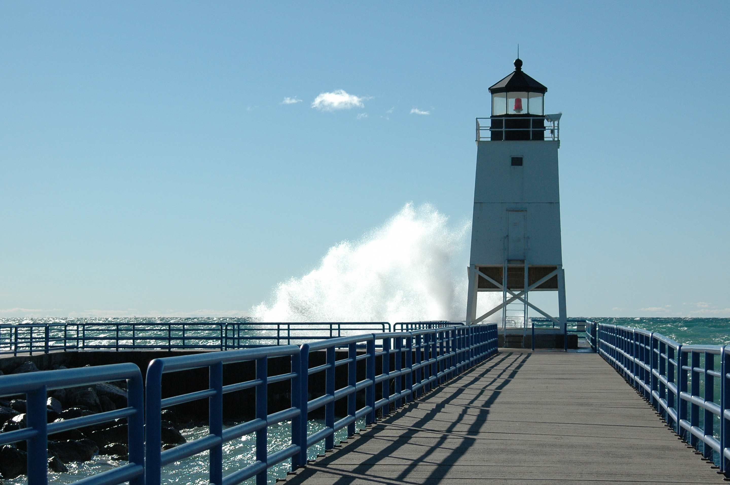 Charlevoix South Pier Light Station, Michigan, USA